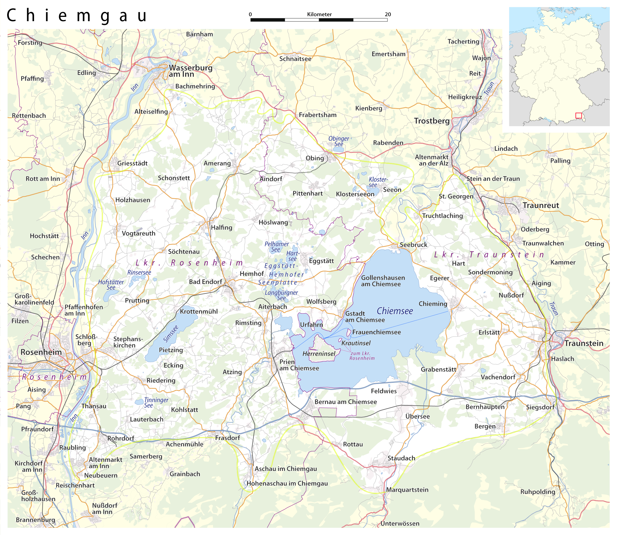 Map: Chiemgau